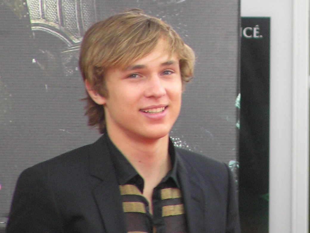 William Moseley at the french premiere of The Chronicles of Narnia: Prince Caspian (21.06.2008)